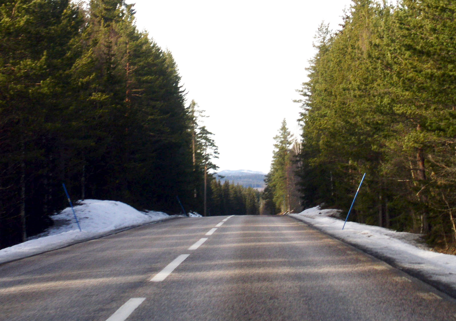 View from highest point of Länsväg 247 4 km south of Björbo, towards north and Gesundaberget far away